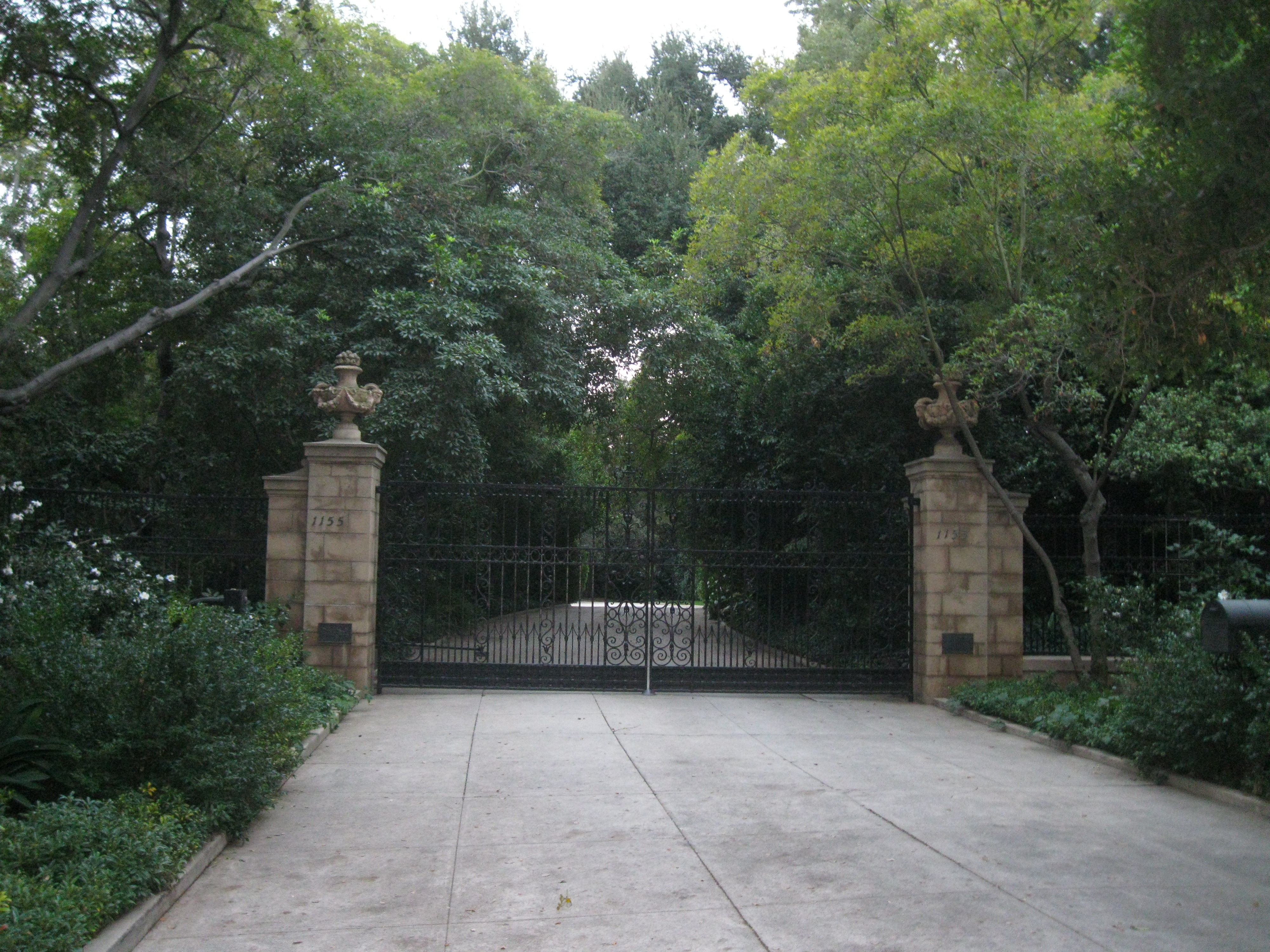 The front gate of the Katherine Emery Estate, a home in San Marino, California which is listed on the National Register of Historic Places.